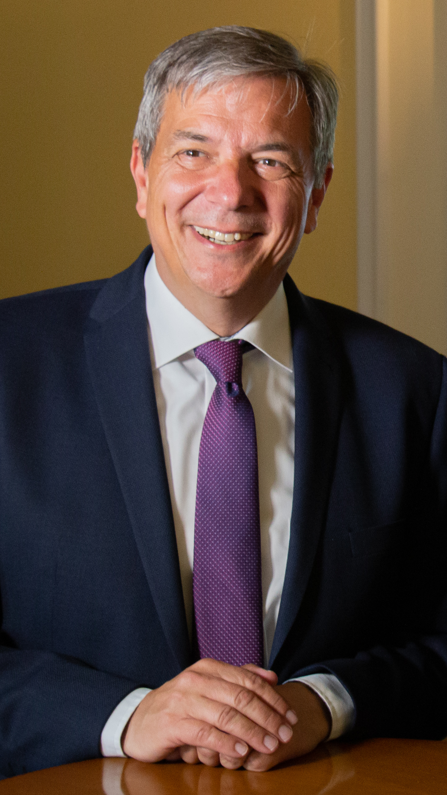 Gert-Uwe Mende in the election night at Wiesbaden town hall.